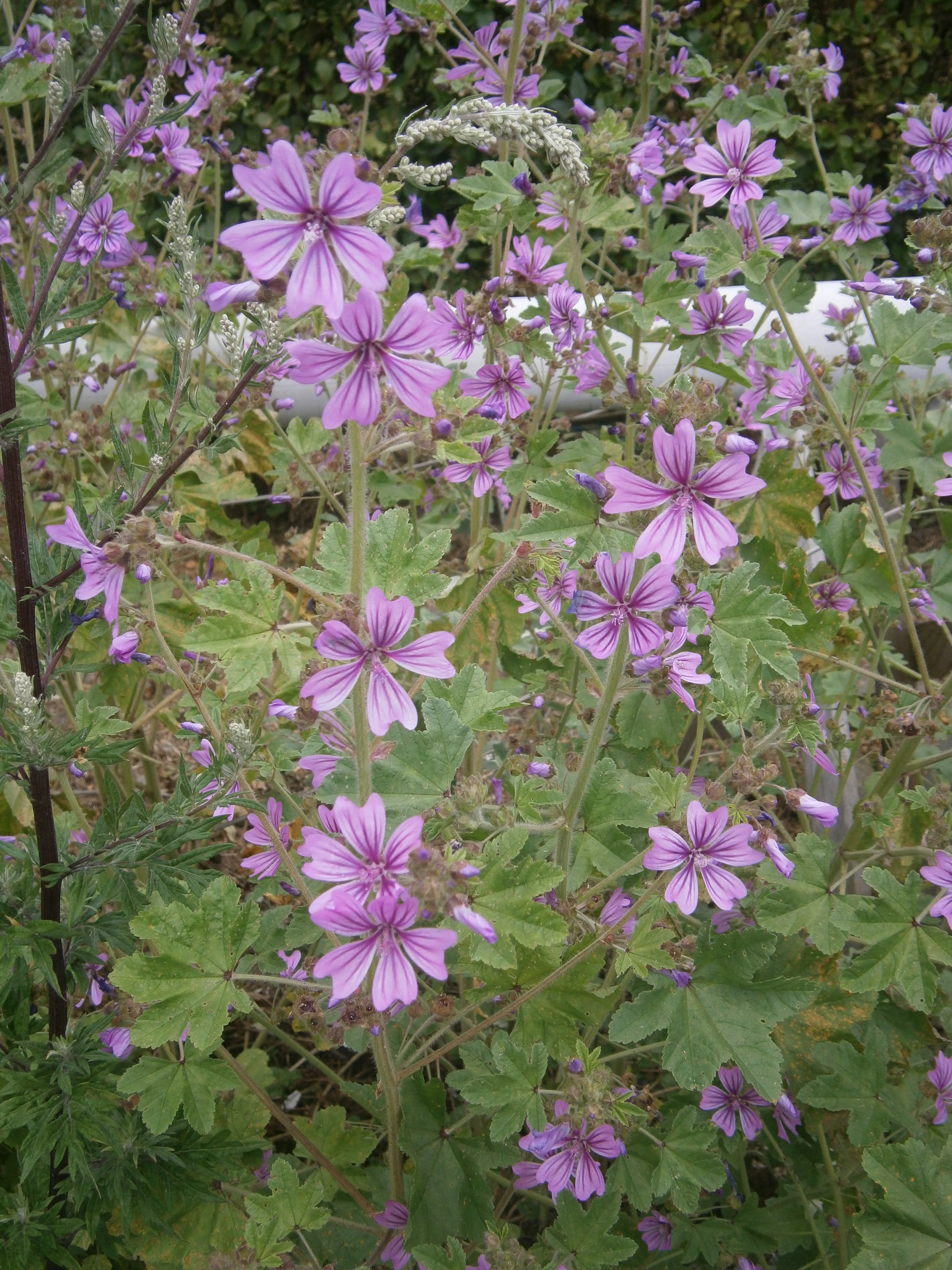 Malva sylvestris